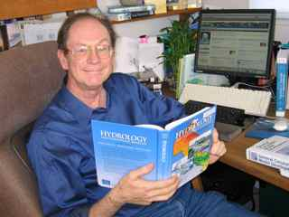 Bruce Daniels Student